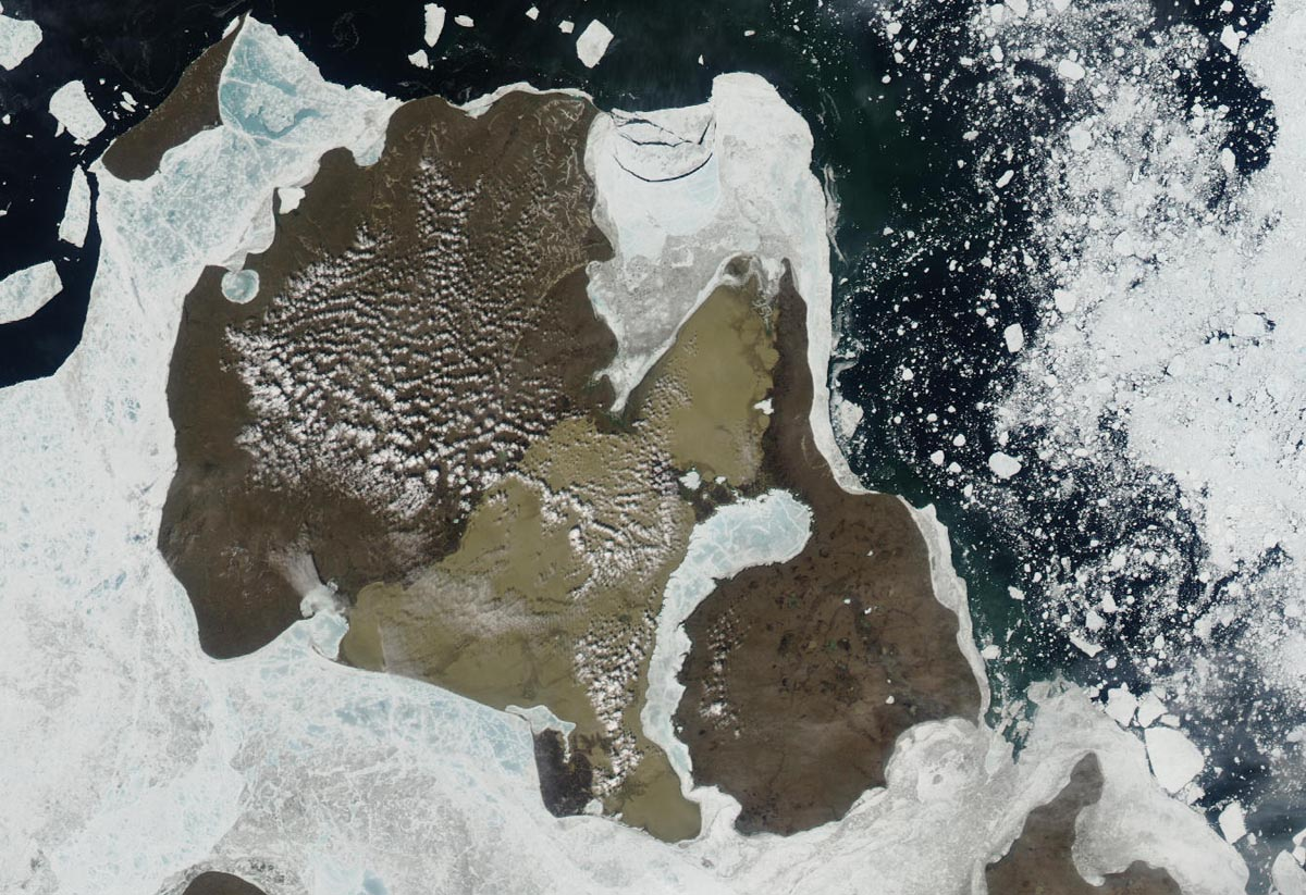 Aqua MODIS satellite image of Kotelnyy and Faddeyevsky Island, New Siberian Islands, Russia, connected by sandy Bunge Land